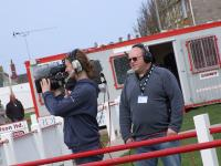 s4c at bastion